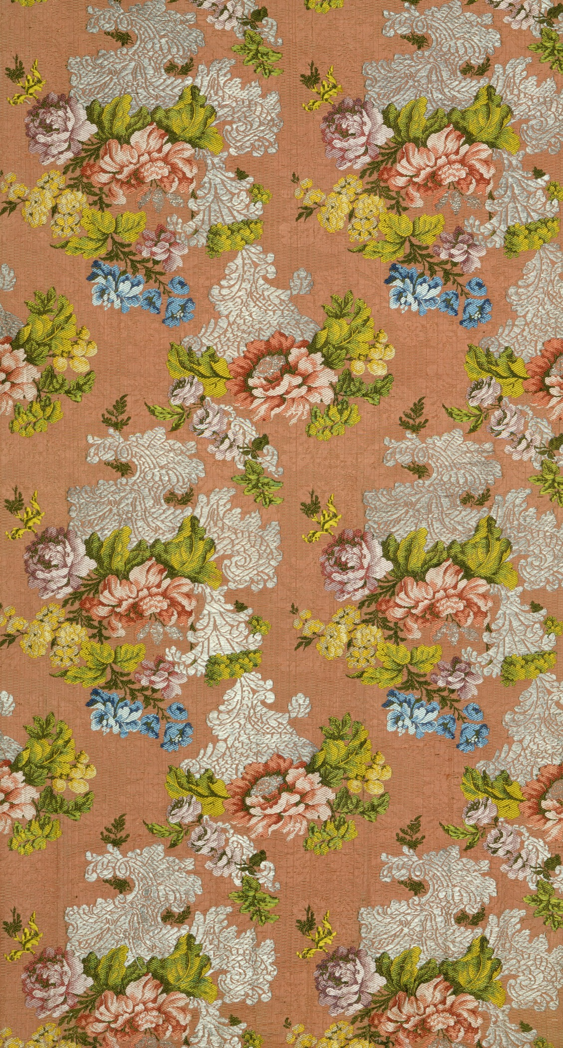 France, Lyon, circa 1730-1750 Textiles; textile lengths Silk and metallic yarn brocade on silk Costume Council Fund (M.63.16) Costume and Textiles